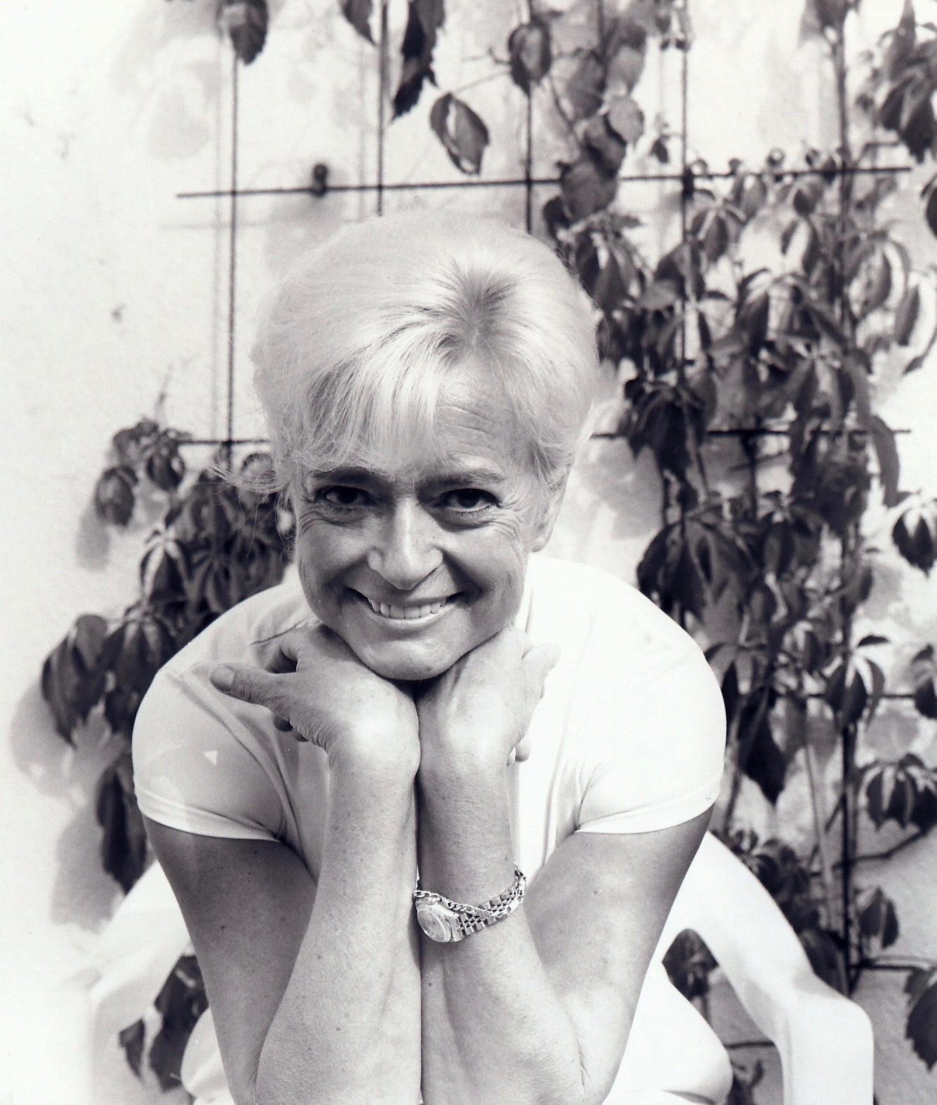 Angelika Platen